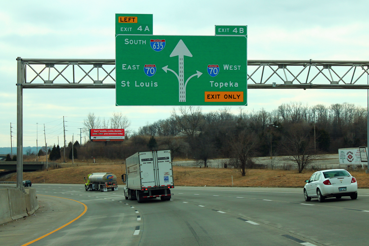 Interstate 635 approaching its junction with Interstate 70